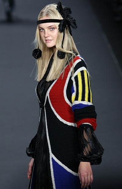 Caroline Trentini, Brazilian model, in Anna Sui depicted person: Caroline Trentini (age: 20.6)